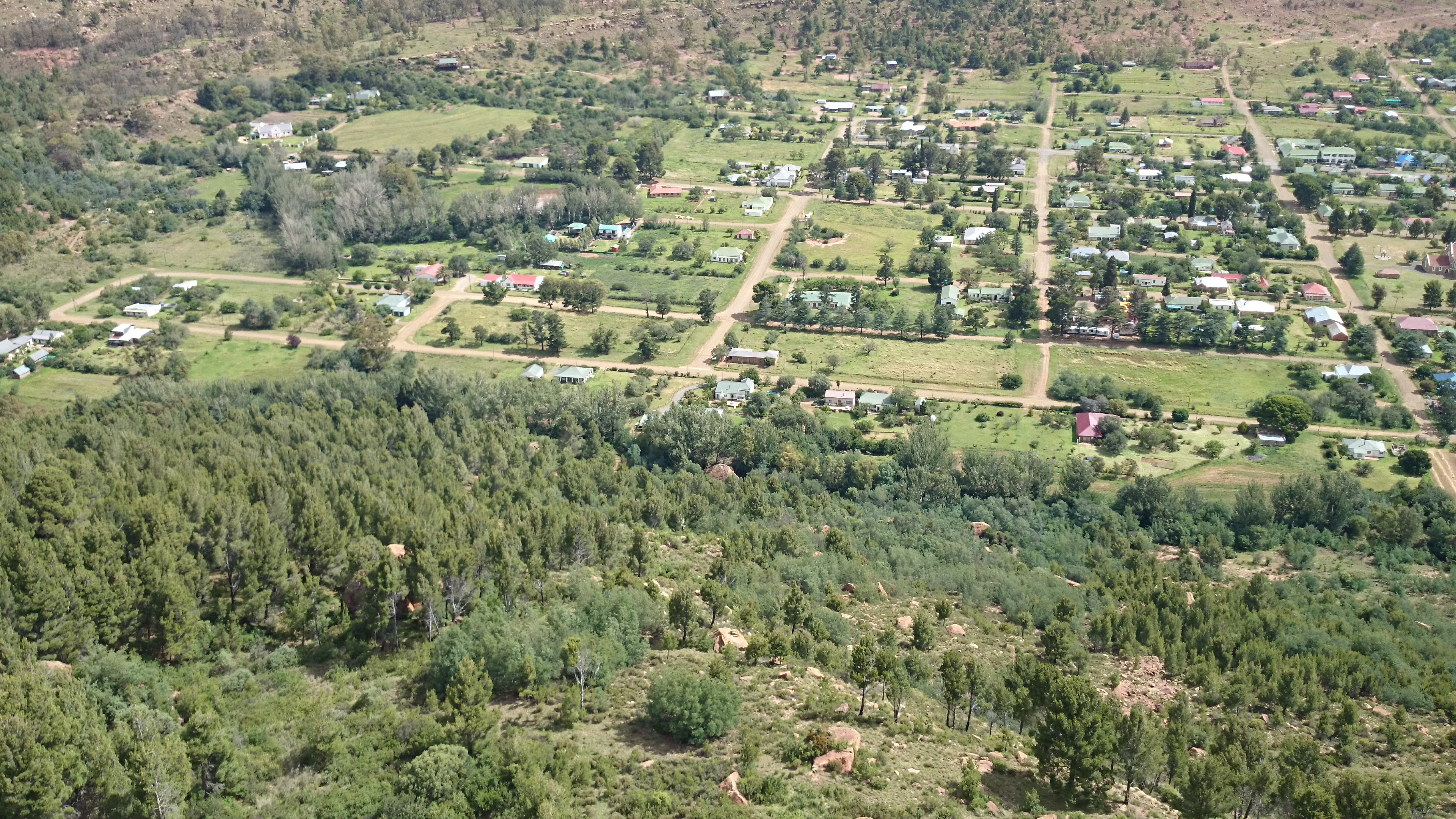 Taken while hiking in Lady Grey